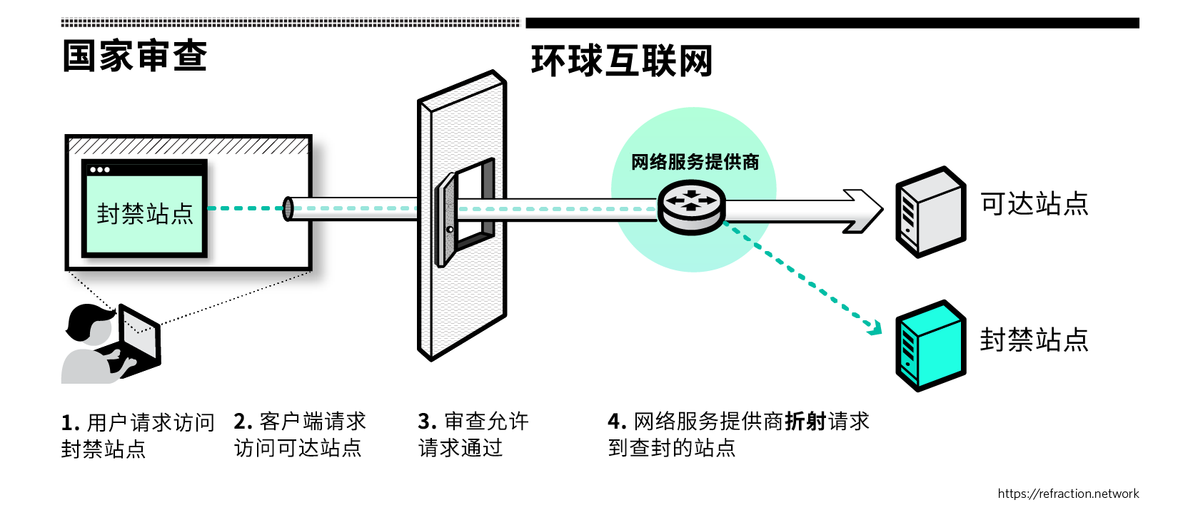 Refraction Networking Diagramme